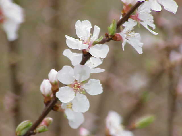 Species: Prunus tomentosa Family: Rosaceae Image No. 1